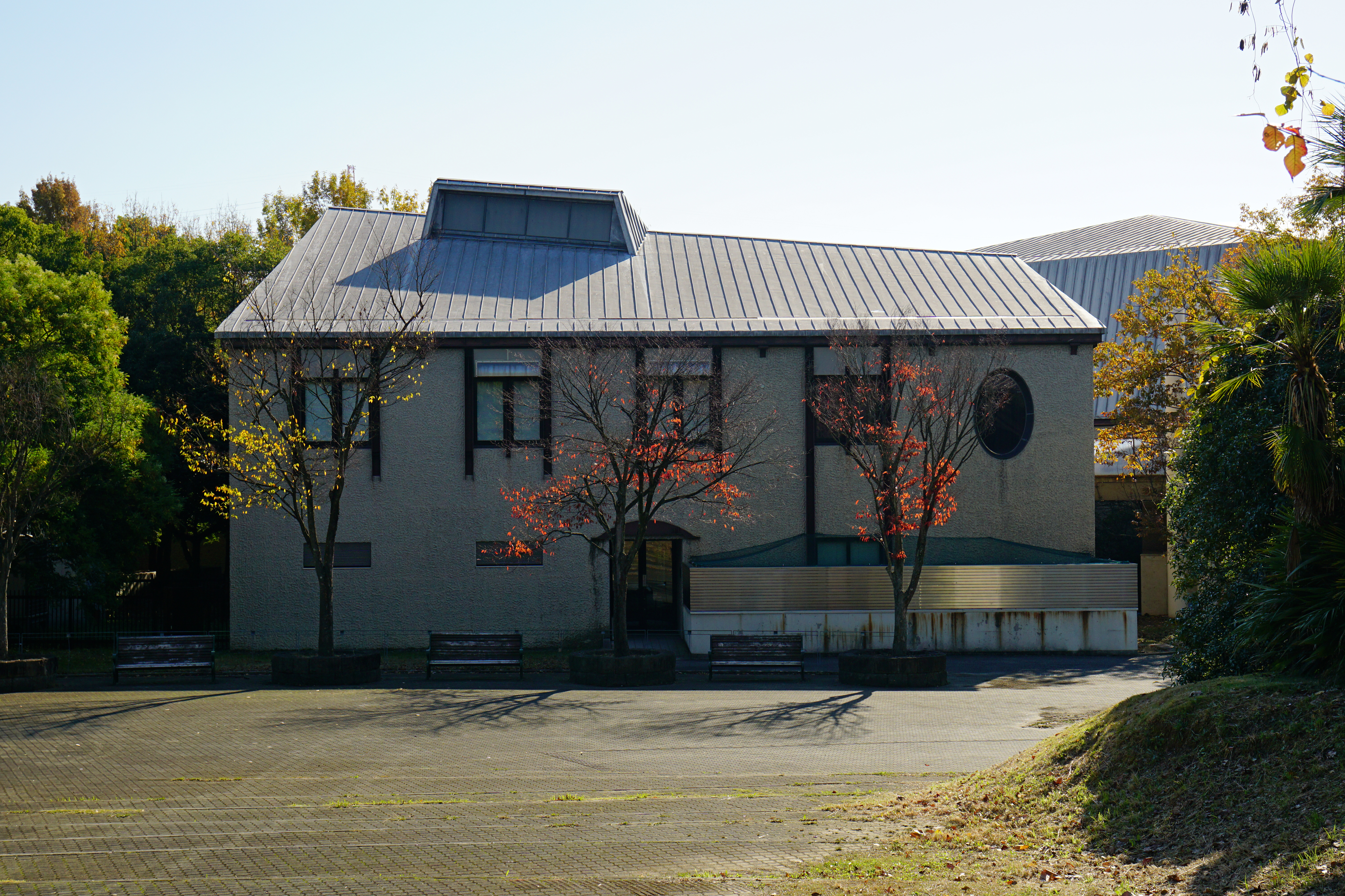 Hattori Ryokuchi open-air concert hall in Osaka prefecture, Japan